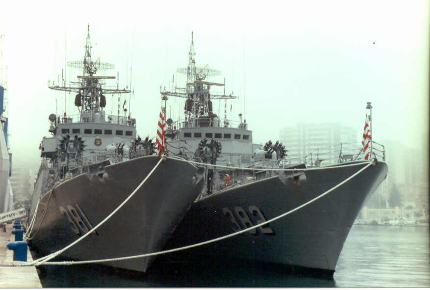 Indonesian corvette Tjiptadi, former DDR Bergen, and Hasan Basri, former Güstrow, Málaga, 10th October 1994.